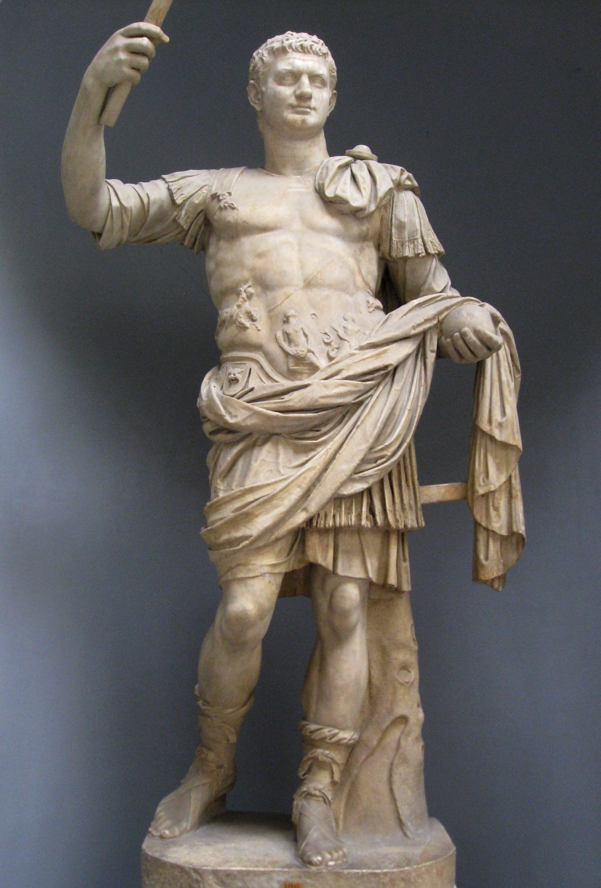 Statue of Emperor Domitian depicted as Augustus, most likely recut from Nero. From the Vatican Museums, Rome.